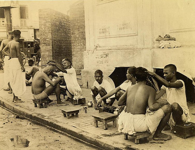 Sidewalk tonsorial parlor. India probably has a greater proportion of barbers than any nation, for in addition to the many salons which cater to the European and higher type Indian trade, these sidewalk shavers seem to ply their trade in every other block.